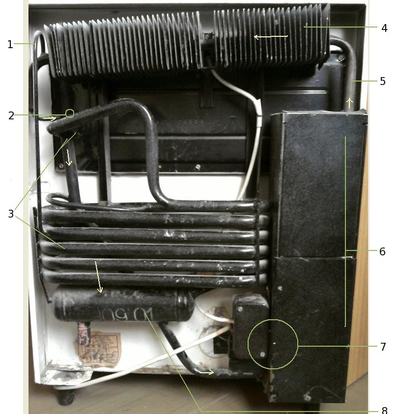 Labeled photograph of an absorbtion refrigerator. Older model for domestic use.